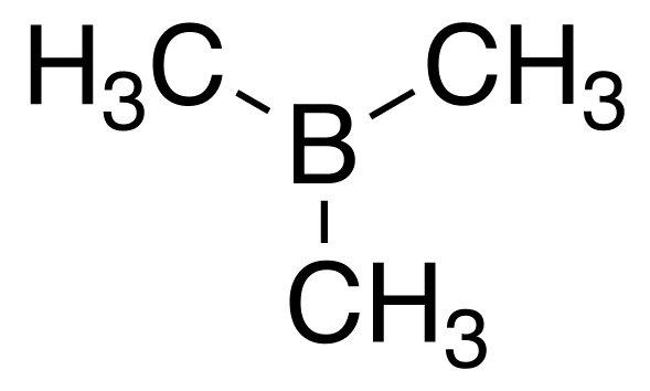 Structure of trimethylborane